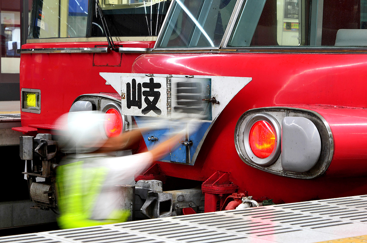 Meitetsu Panorama Car 7000 series EMU ( 7043F ), at Chūbu Centrair International Airport Station.